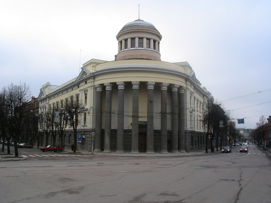 Photo of Kaunas National Philharmonic Society in 2004.